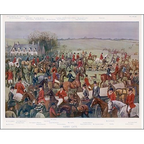 Winter Supplement: Group of hunters; a meet of the Quorn in Leicestershire, double print. Caption reads: "Kirby Gate" The Duke of Marlborough, Hugh Owen, H.T. Barclay, Mr. & Mrs. Molyneux, Arthur Conventry, Mrs. Burns-Hartropp, Lord Belper, E.H. Baldock, Captain Burns Hartropp, Lancelot Lowther, Walter Kyte, J.D. Craddock, Mrs. W. Lawson, Henry Chaplin, Lady Angela Forbes, The Countess Warwick, Earl of Lonsdale, General Brocklehurst, A. Pryor, Foxhall Keene, Mrs. Asquith, Princess Henry of Pless, Lord Henry Bentinck, Mrs. Lancelot Lowther, Tempest Wade, Tom Firr, Captain Boyce and others.